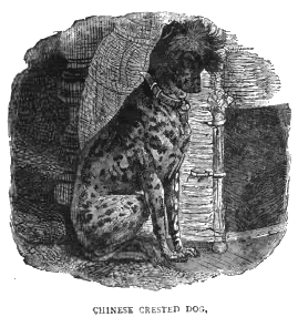 Drawing of a Chinese Crested Dog published in 'The Illustrated Book of the Dog' by Vero Shaw in 1881.